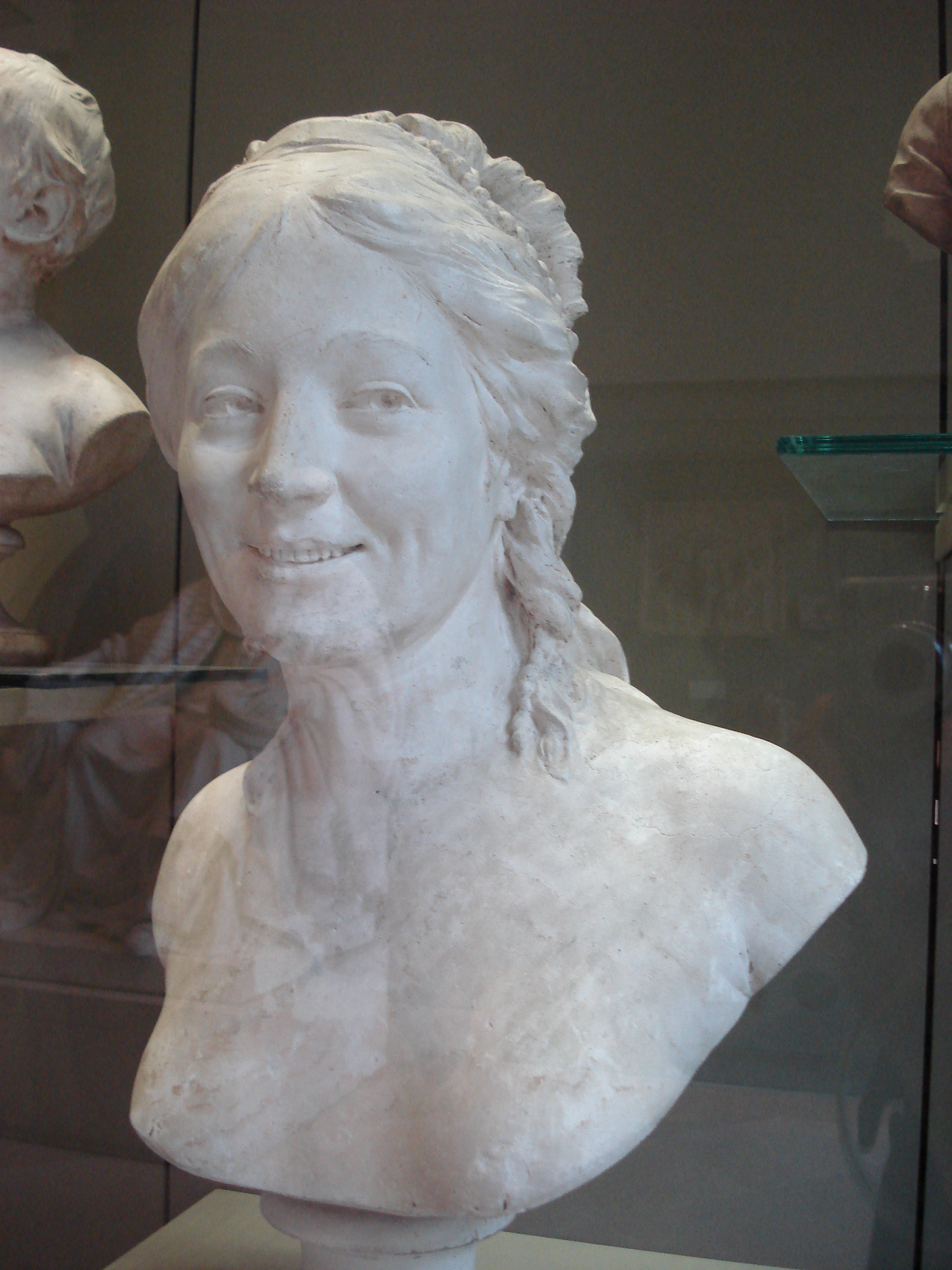 Louvre Museum